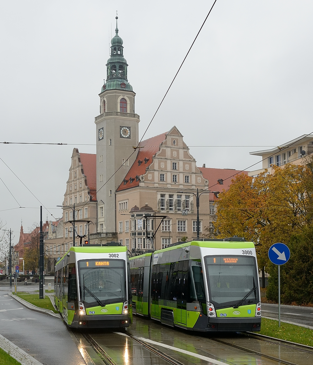 Solaris Tramino 3000 und 3002 in Olsztyn